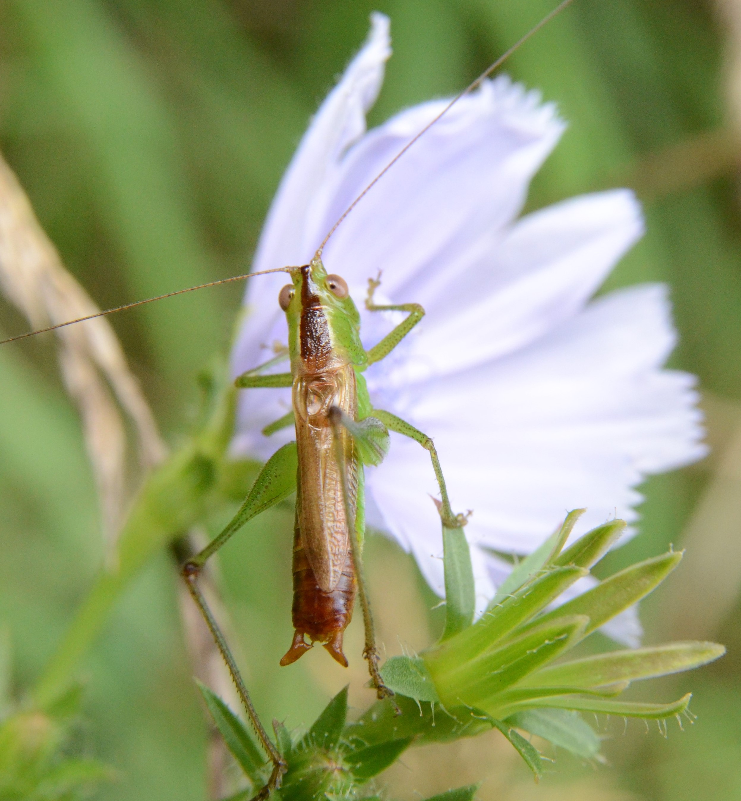 at Spring Garden natural area in Windsor, Ontario.